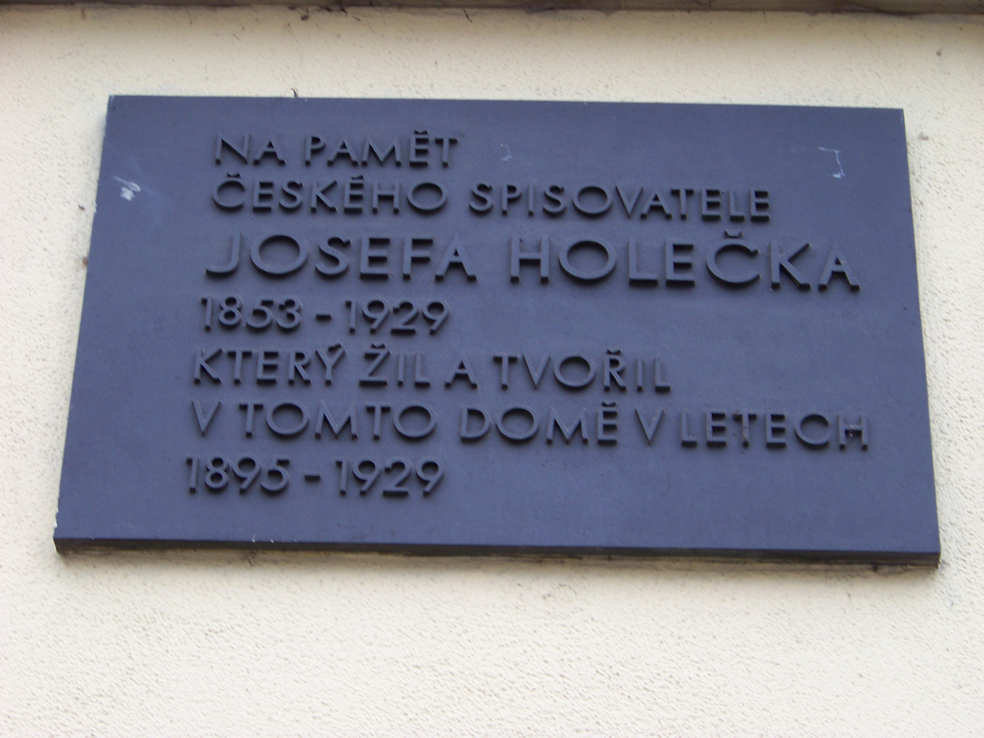 Prague-Smíchov, the Czech Republic. Holečkova 105/6, a plaque to Josef Holeček. - OpenStreetMap(Info)